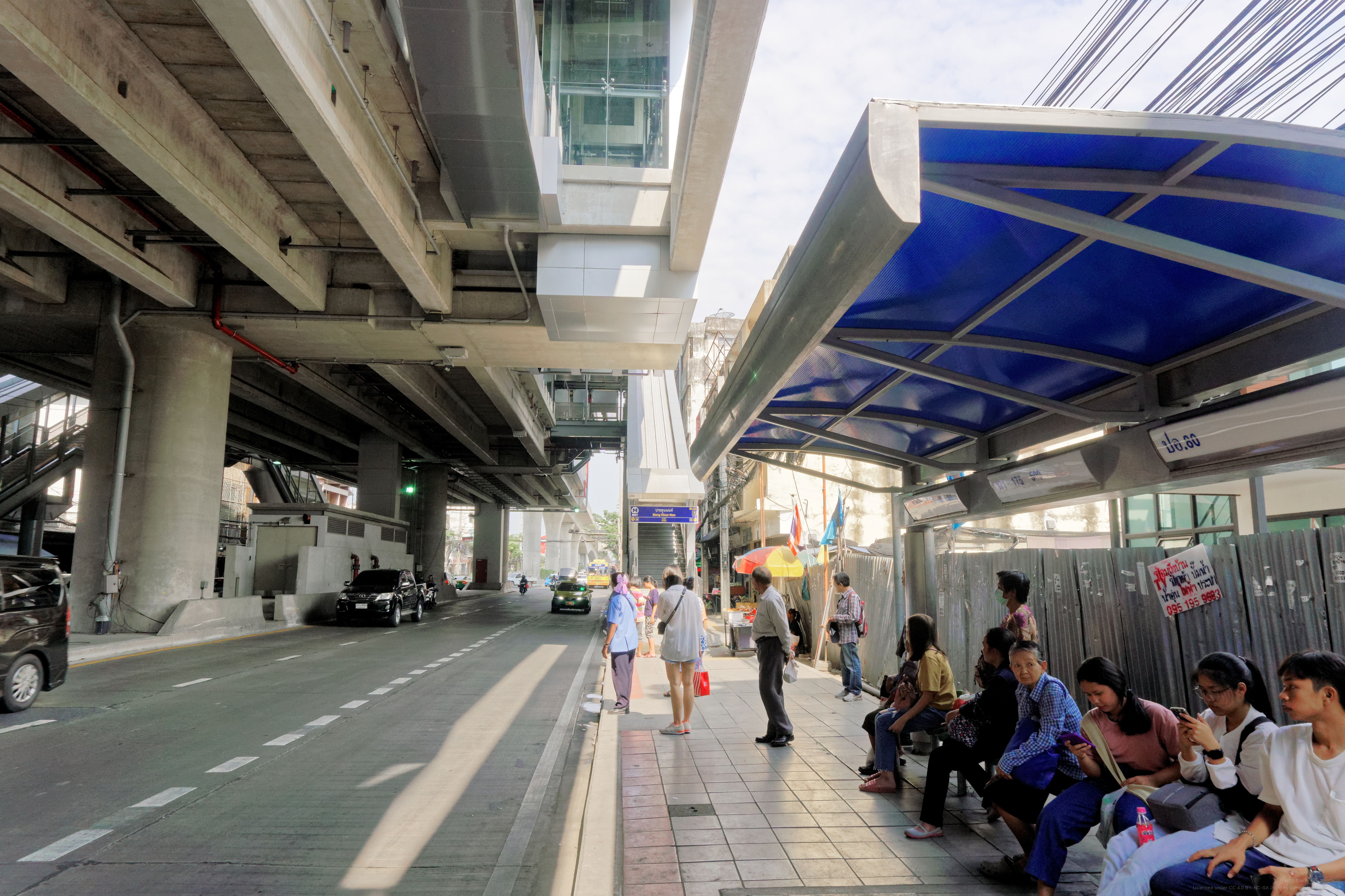 MRT Bang Khun Non – Exit 4 with a bus stop